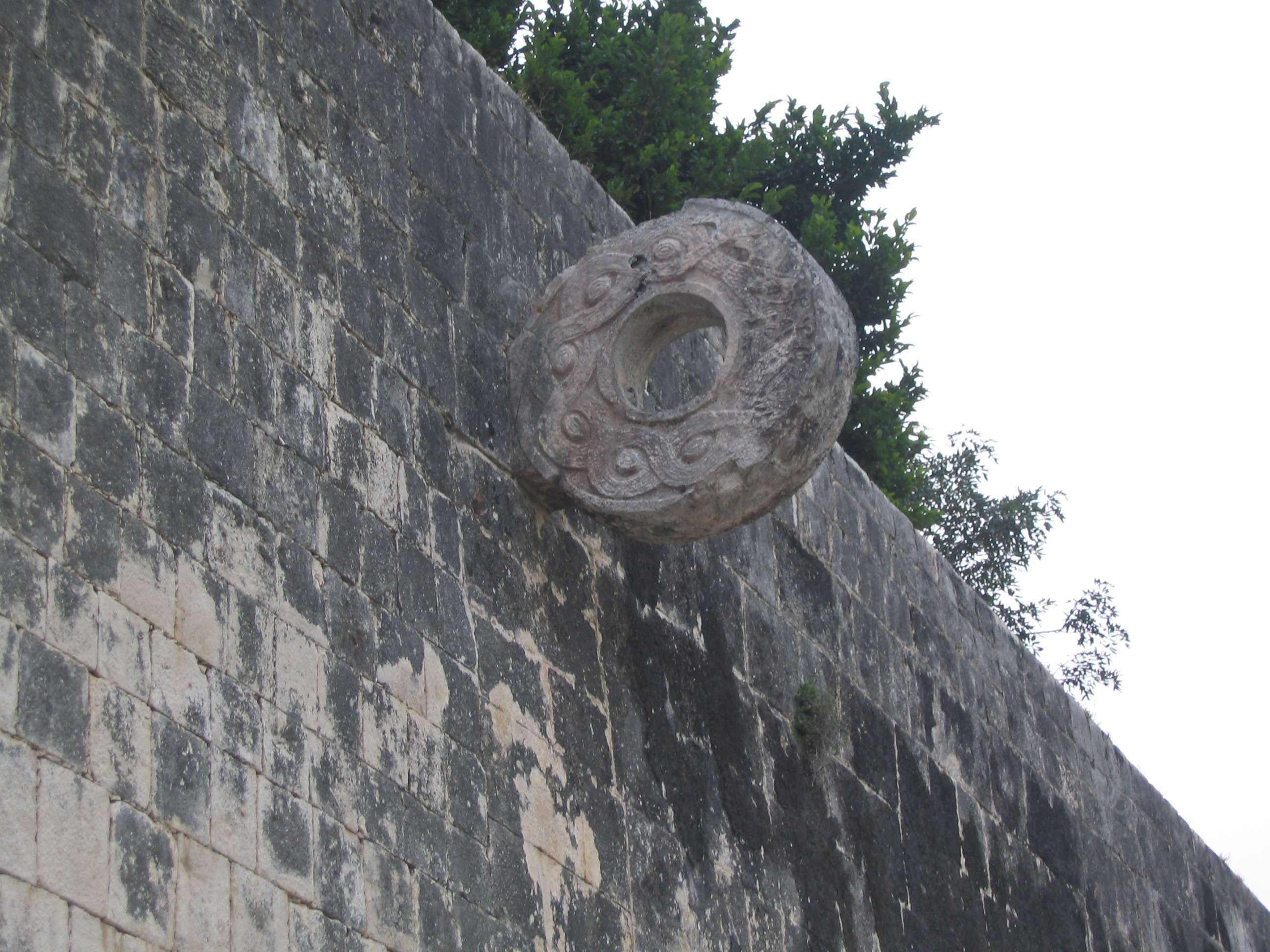 Ballspielplatz Chichén Itzá own Work Jan 2007 Tihis play exit in the dorado film